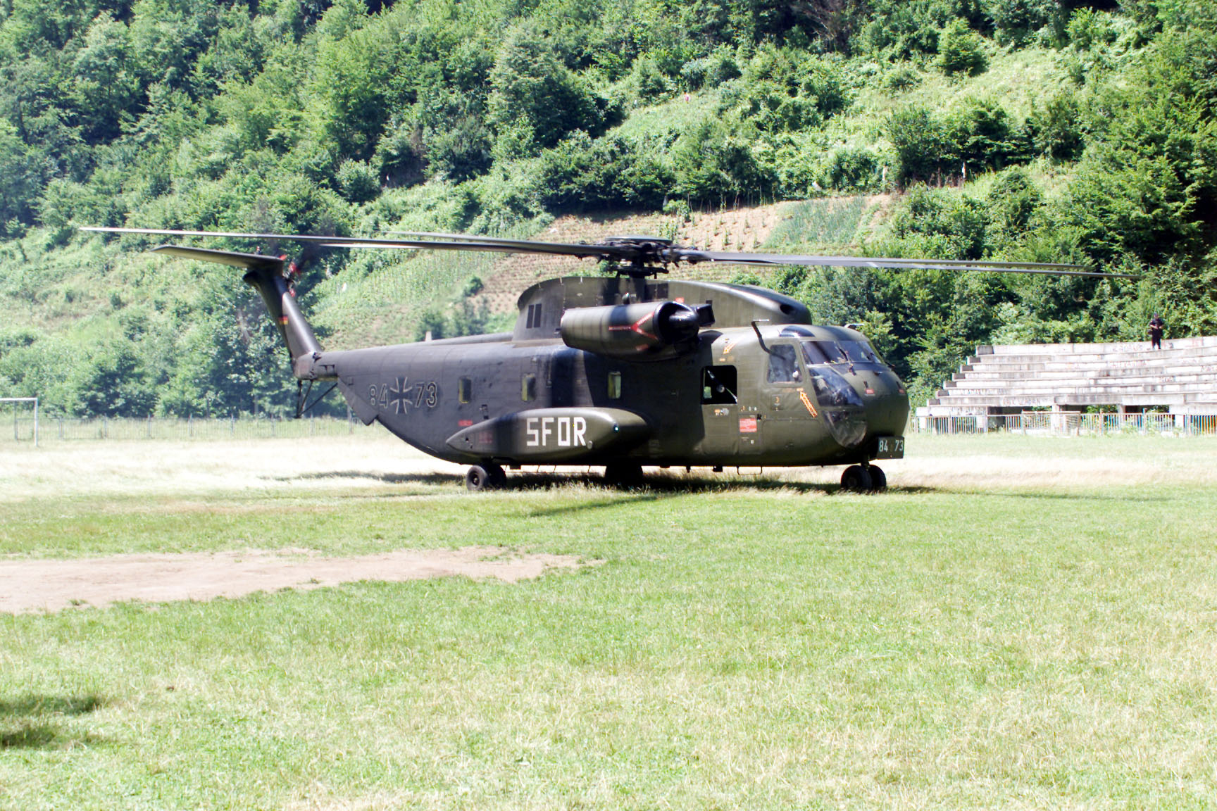 Landing on a soccer field outside the city of Srebrenica, a German MH-53 prepares to open its tailgate to allow ambassadors from the European Union to get off on July 11, 2001. The ambassadors were due to attend a memorial dedication ceremony in the nearby town of Potocari.